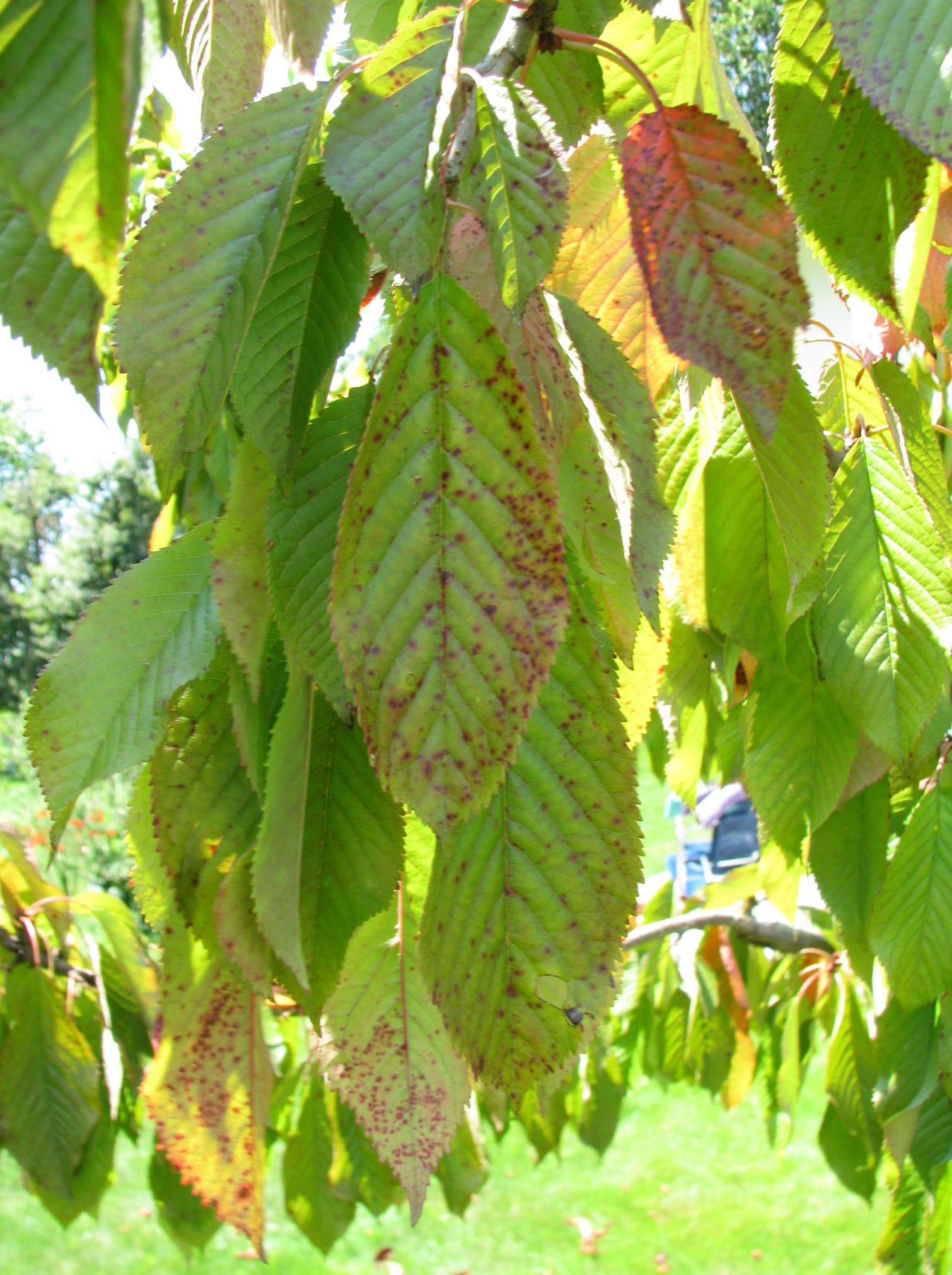 Sick Prunus_cerasus, source cherry, from an unknow reason.